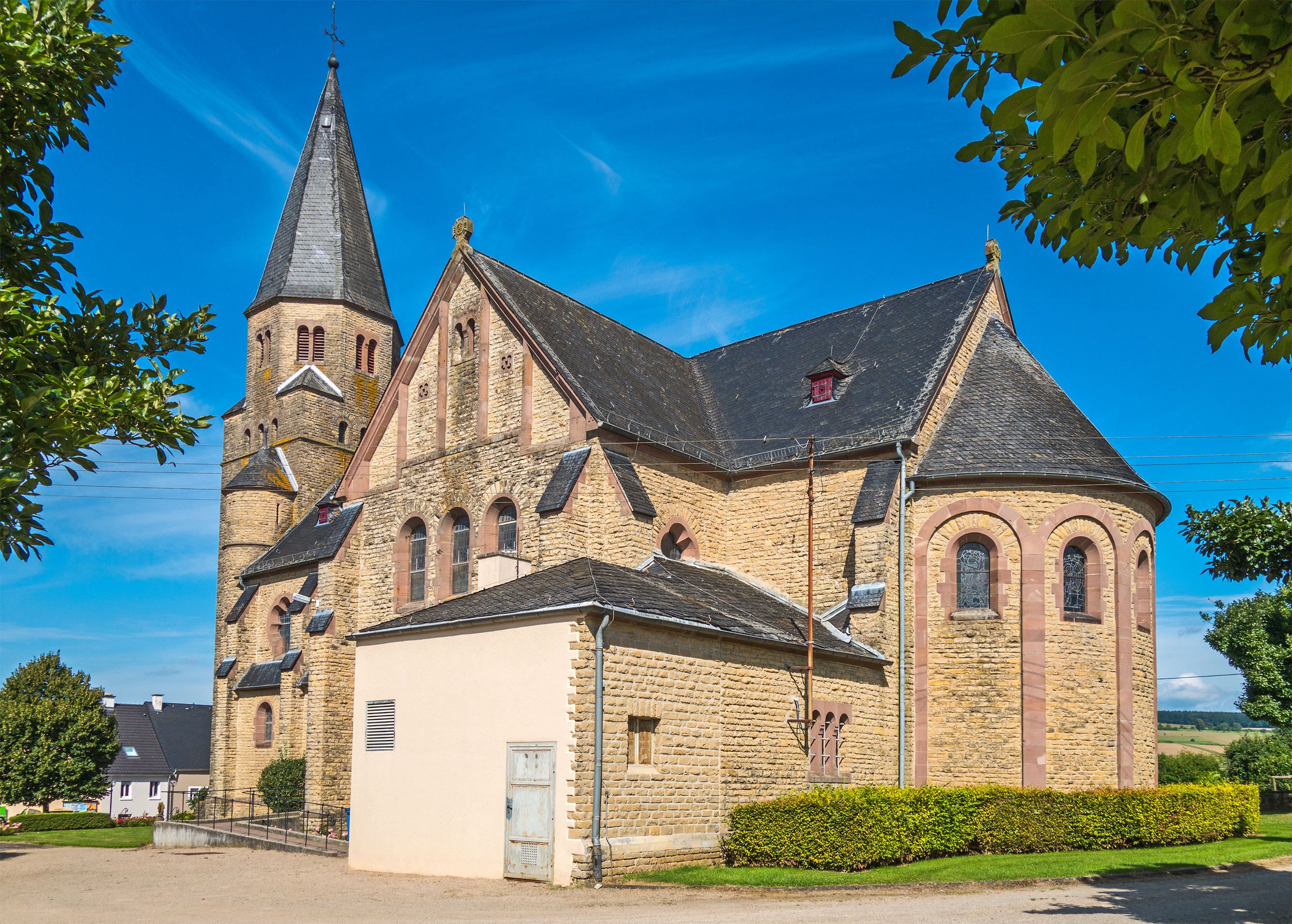 Church of Biersdorf am See